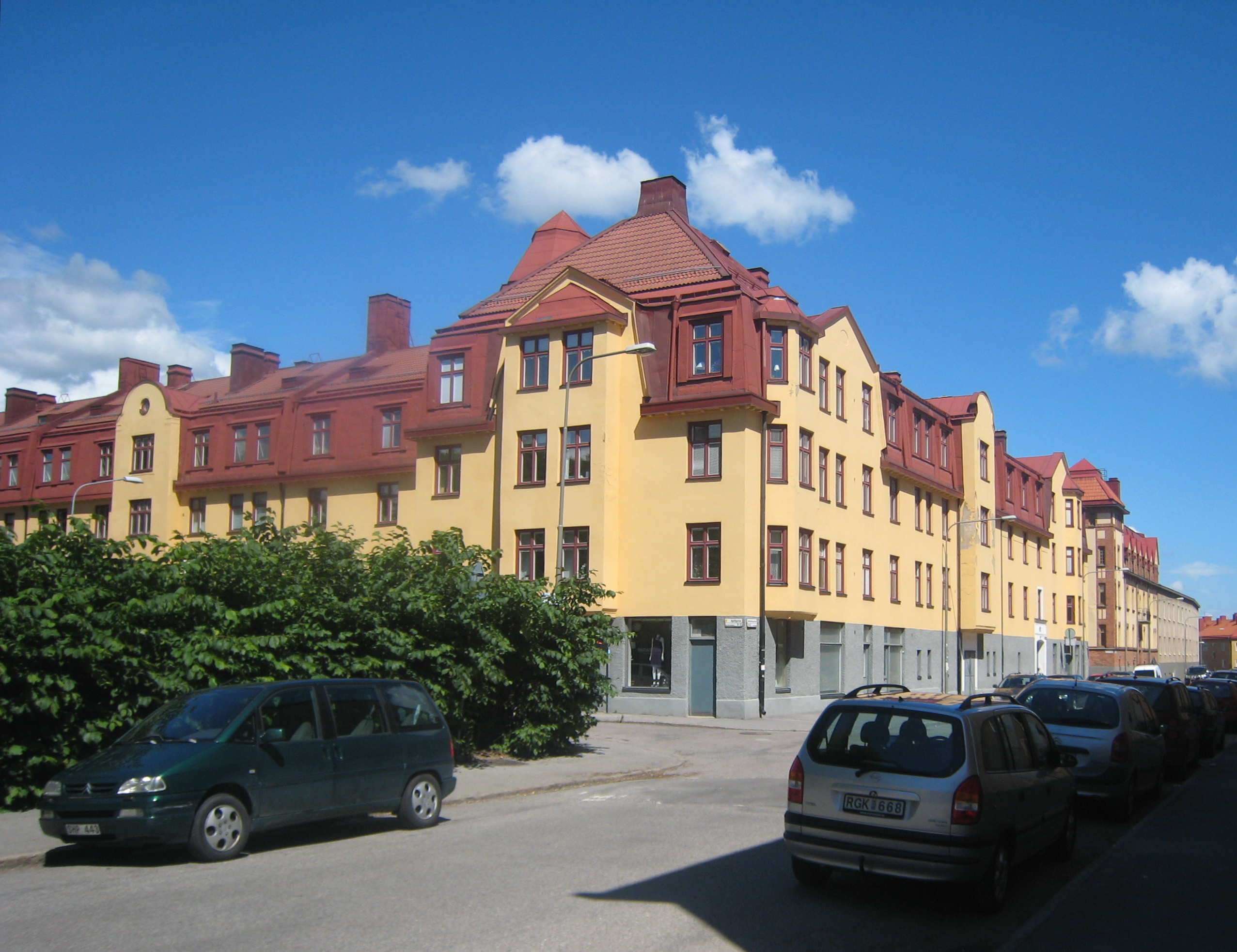 Vattenledningsvägen, Midsommarkransen.